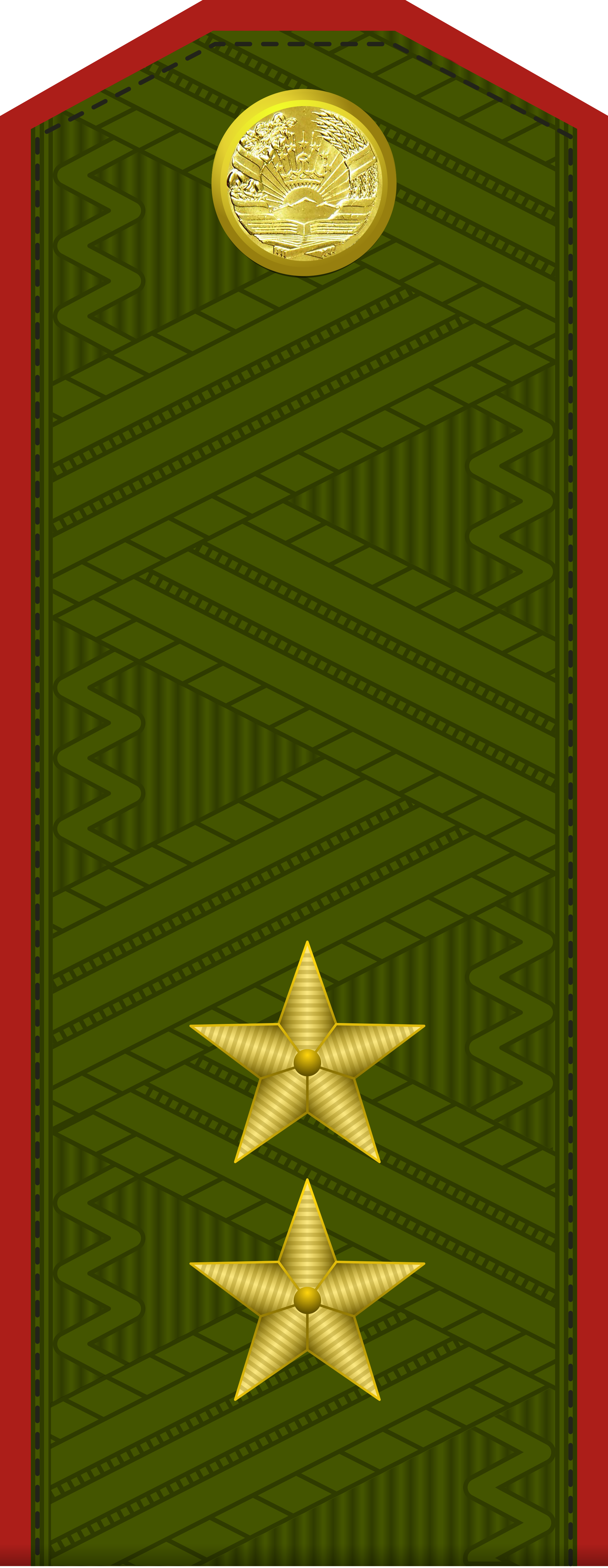 Rank insignia of Lieutenant General for the Tajikistan Army